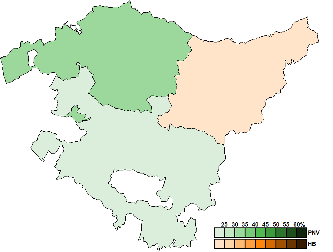 Provincial results for the 1990 Basque regional election.